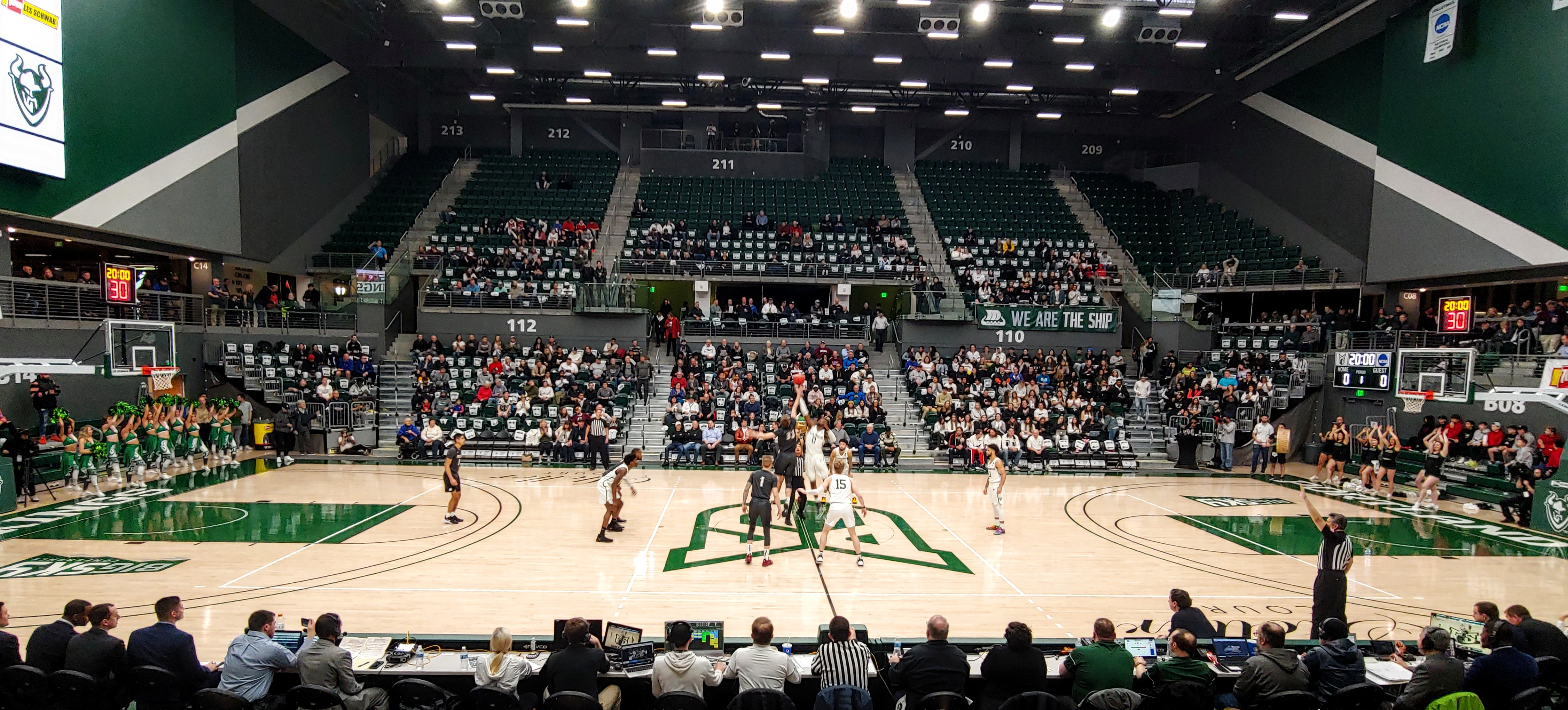 Viking Pavilion during men's basketball game versus Montana, January 30, 2020.